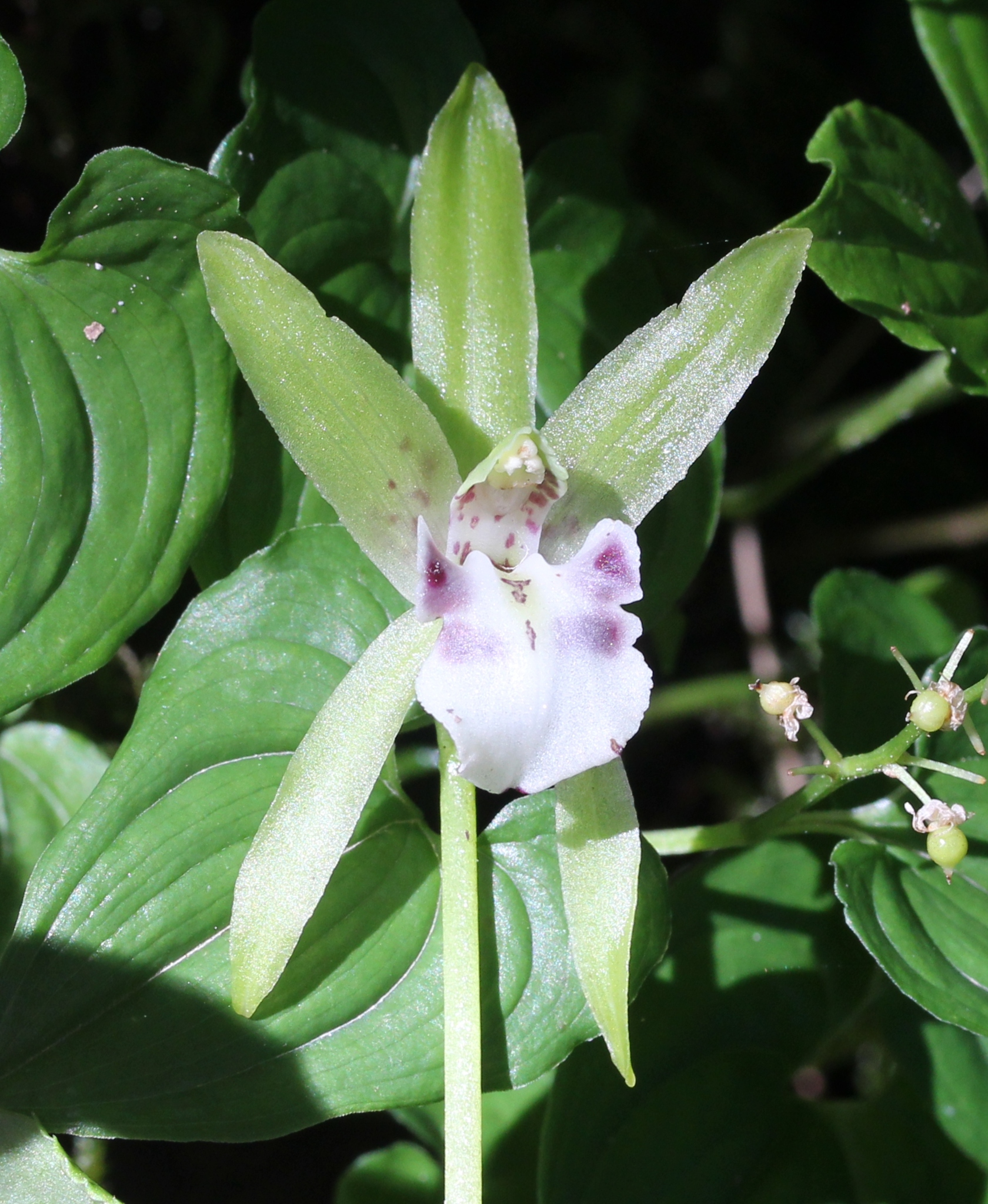 Dactylostalix ringens in Mount Chō, Hida Mountains, Azumino, Nagano prefecture, Japan.